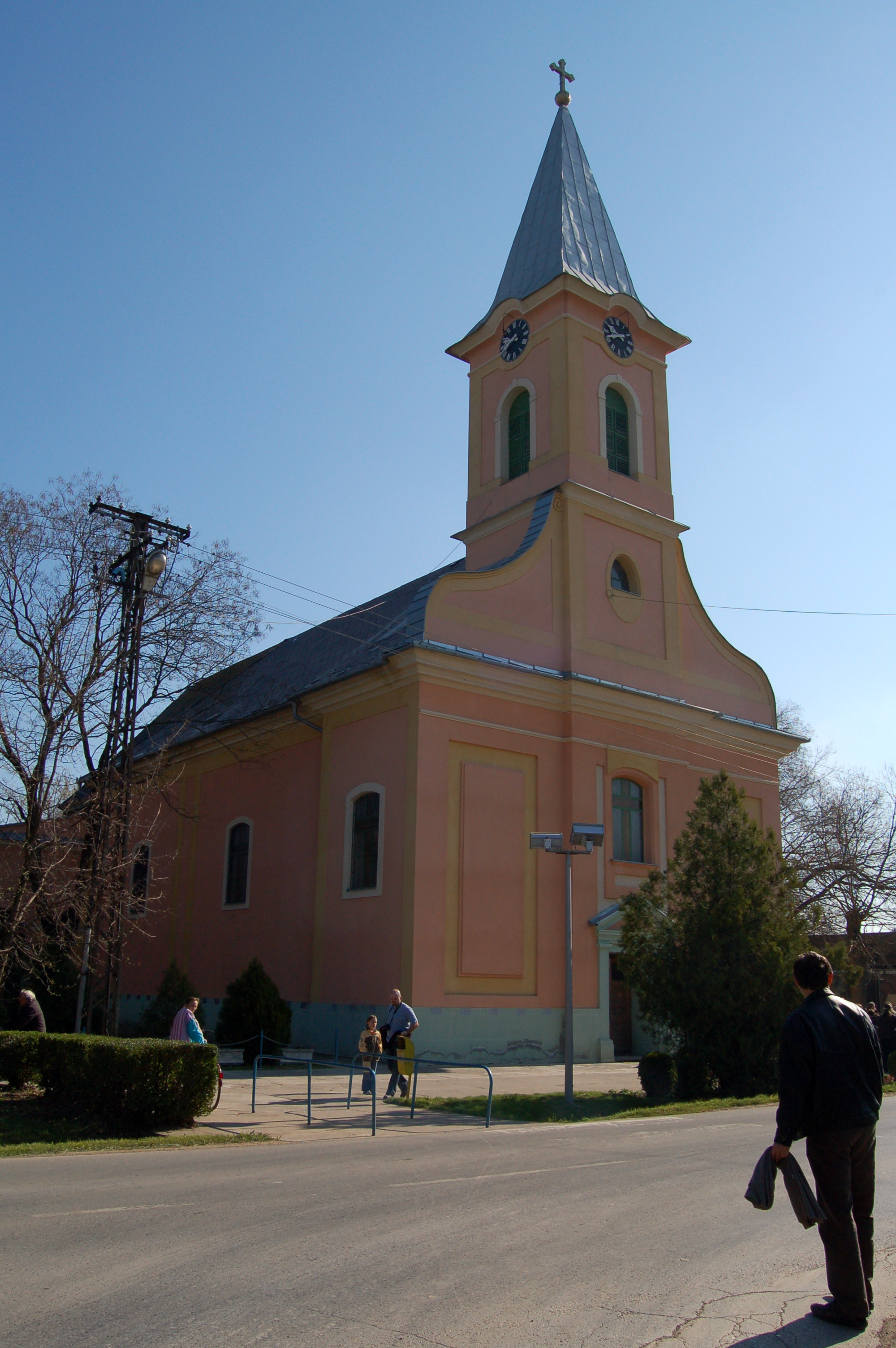 Mali Iđoš, church of Saint Anne